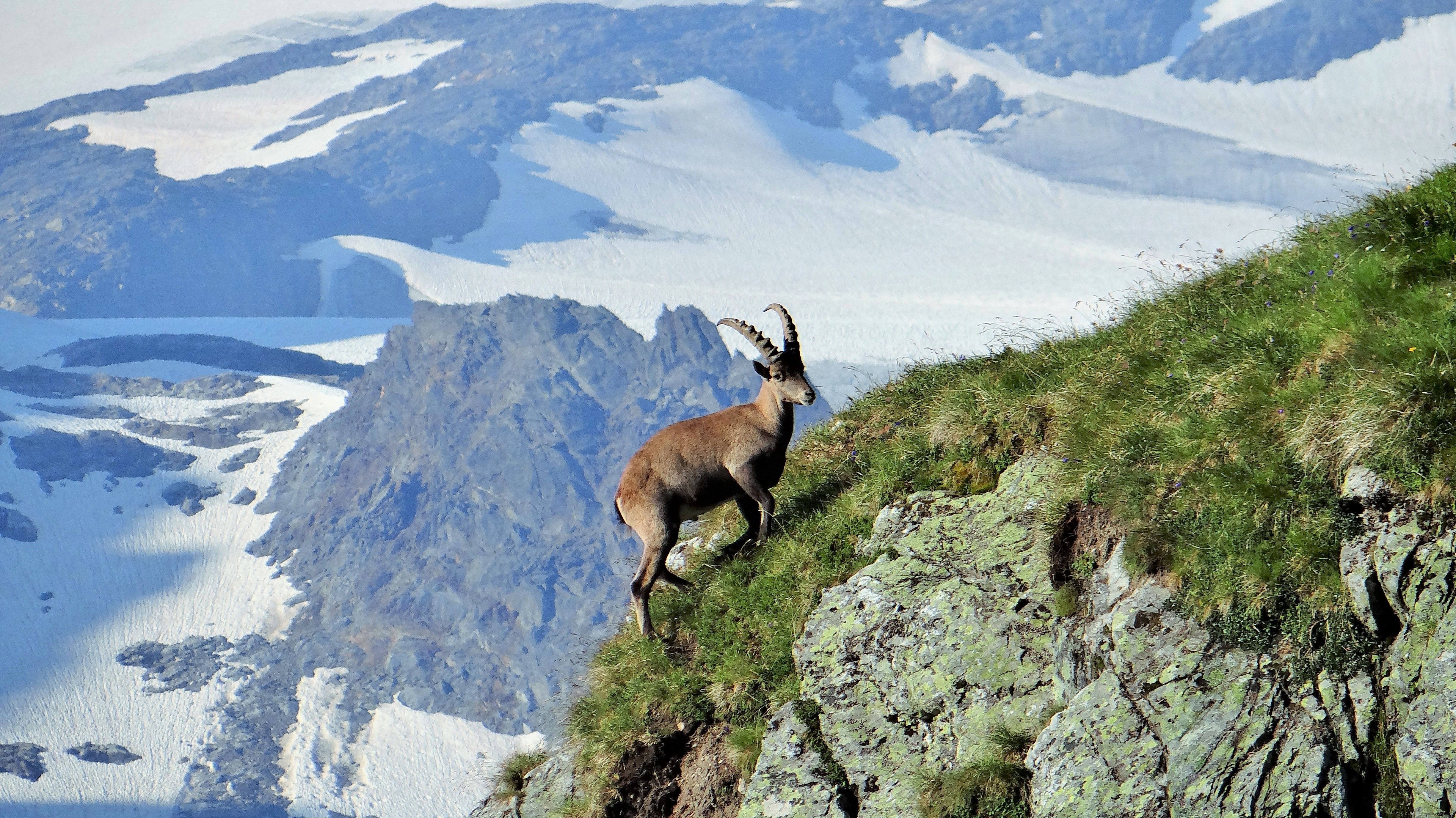 Ibex at the lake of the rink 2512 m and in the background domes of the Vanoise